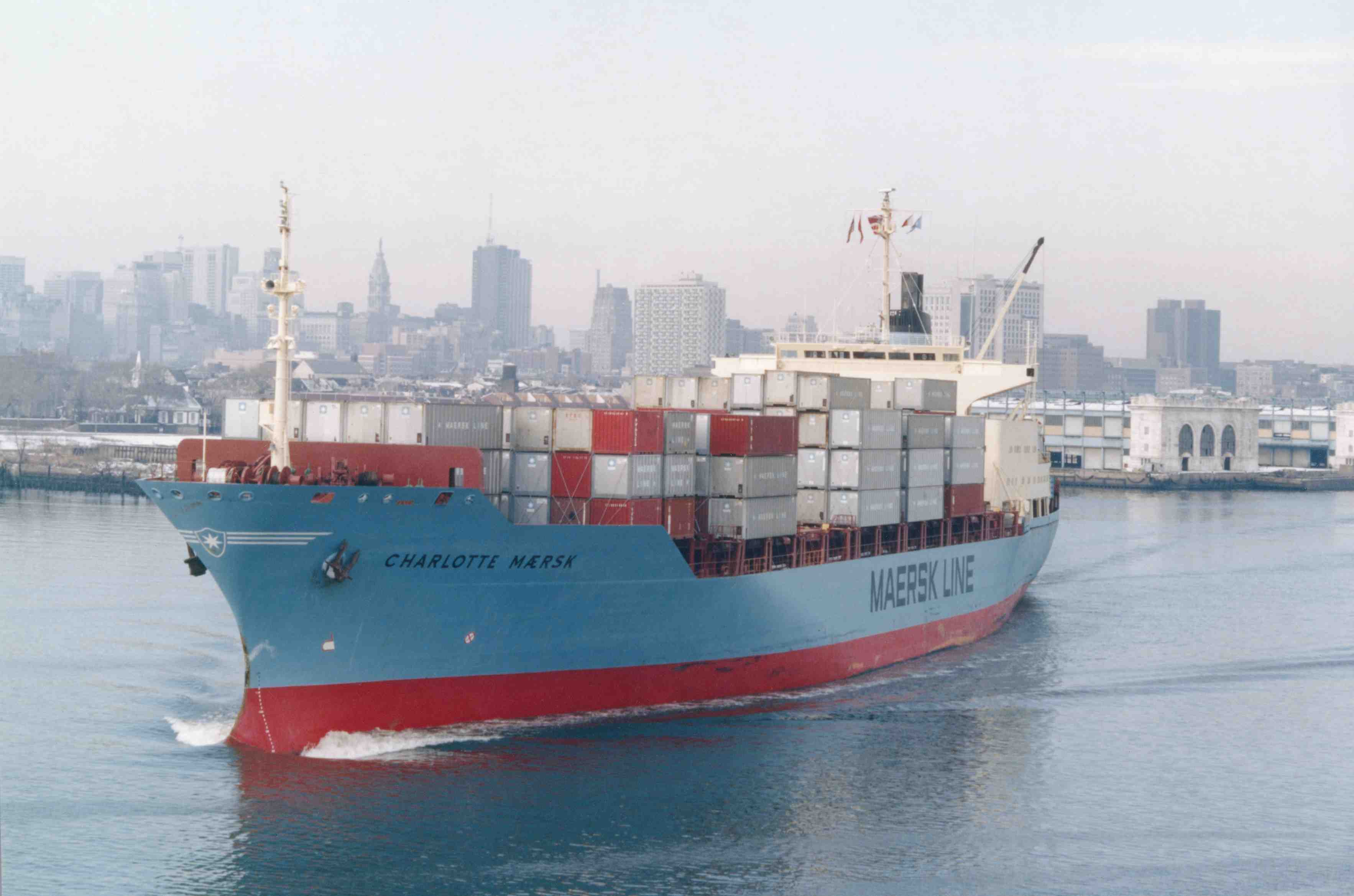 The refitted Charlotte Mærsk (1968) in the 70s